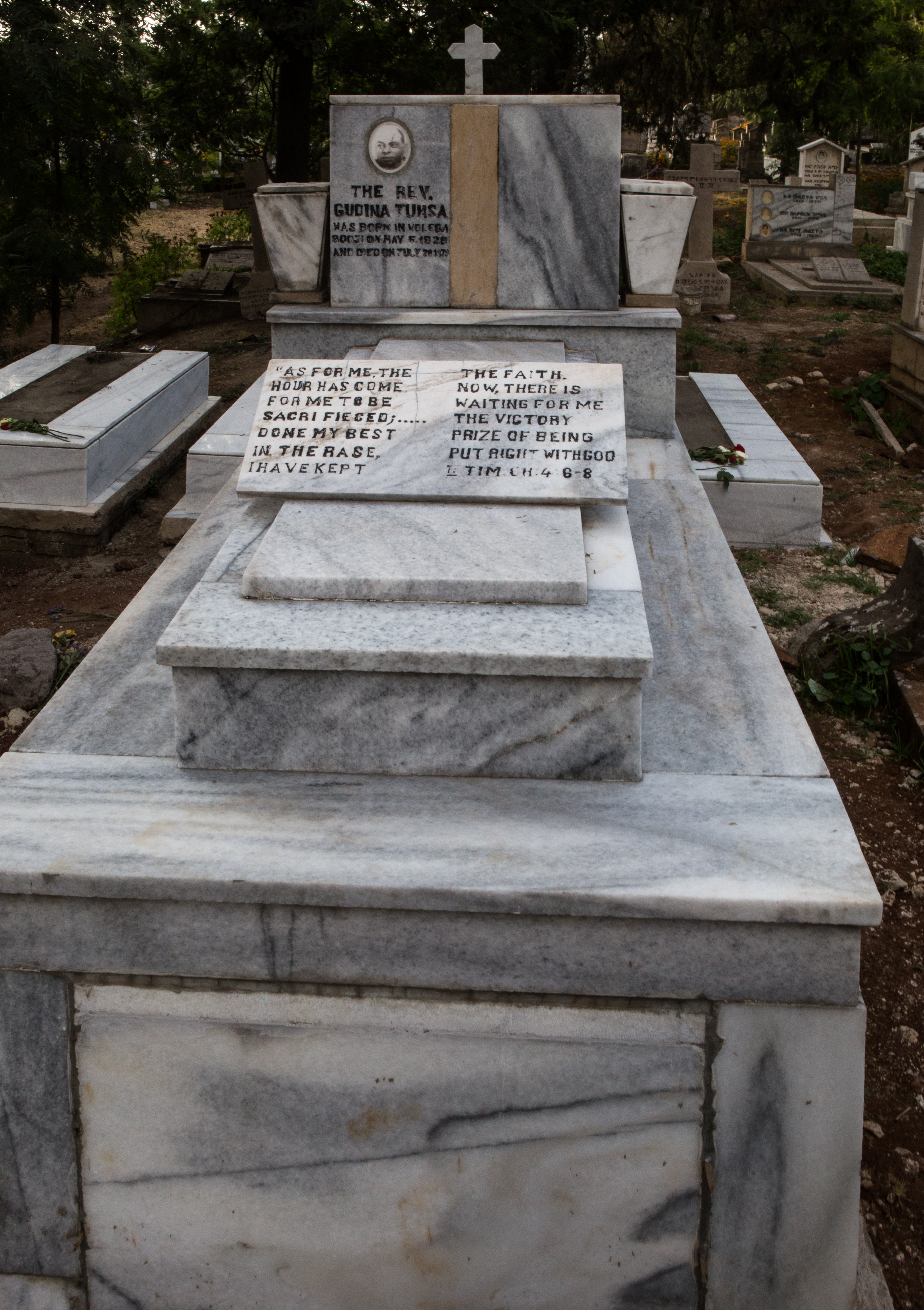 Gravestone of Mekane Yesus general secretary Gudina Tumsa